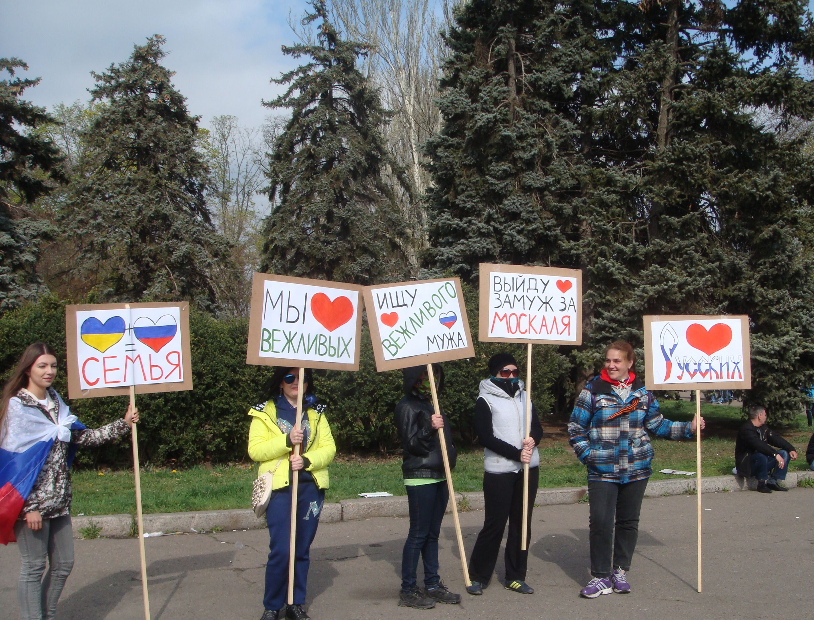 Pro-Russian meeting in Odessa on 2014-04-13. Female protesters and some slogans of their (in Russian) from left to right: "Ukraine and Russia is one family", "We love "polite" people", "seeking for polite husband", "marry moskal", "I love russians"